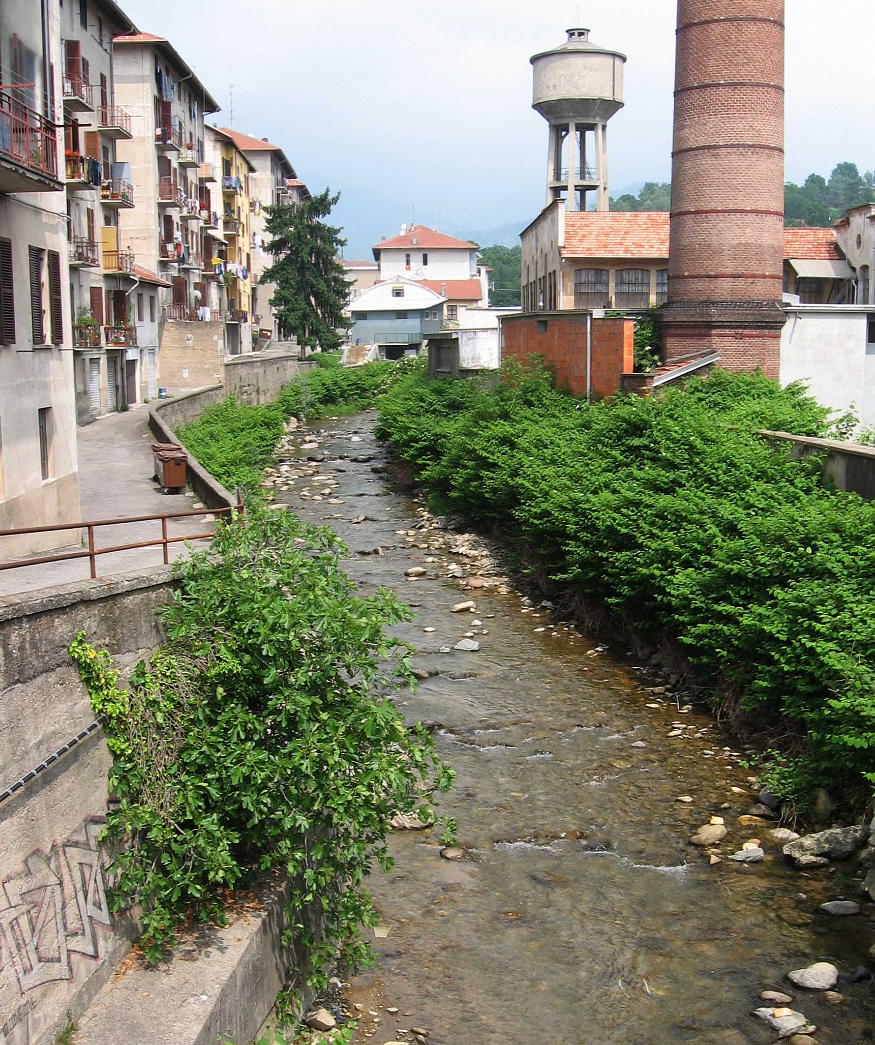 Oremo creek (BI, Italy): reynoutria japonica